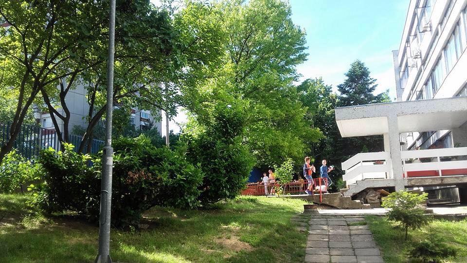 Elementary school Djordje Krstic, Belgrade, Serbia